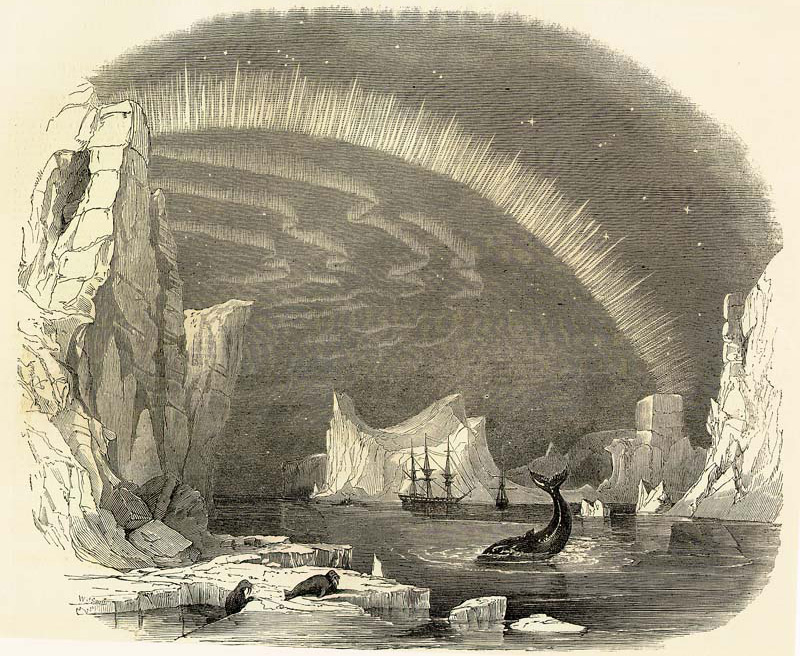 Icebergs and the aurora borealis in the Arctic. An image from the Illustrated London News